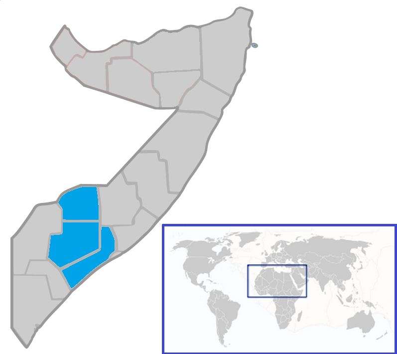 Map of the South West State within Somalia